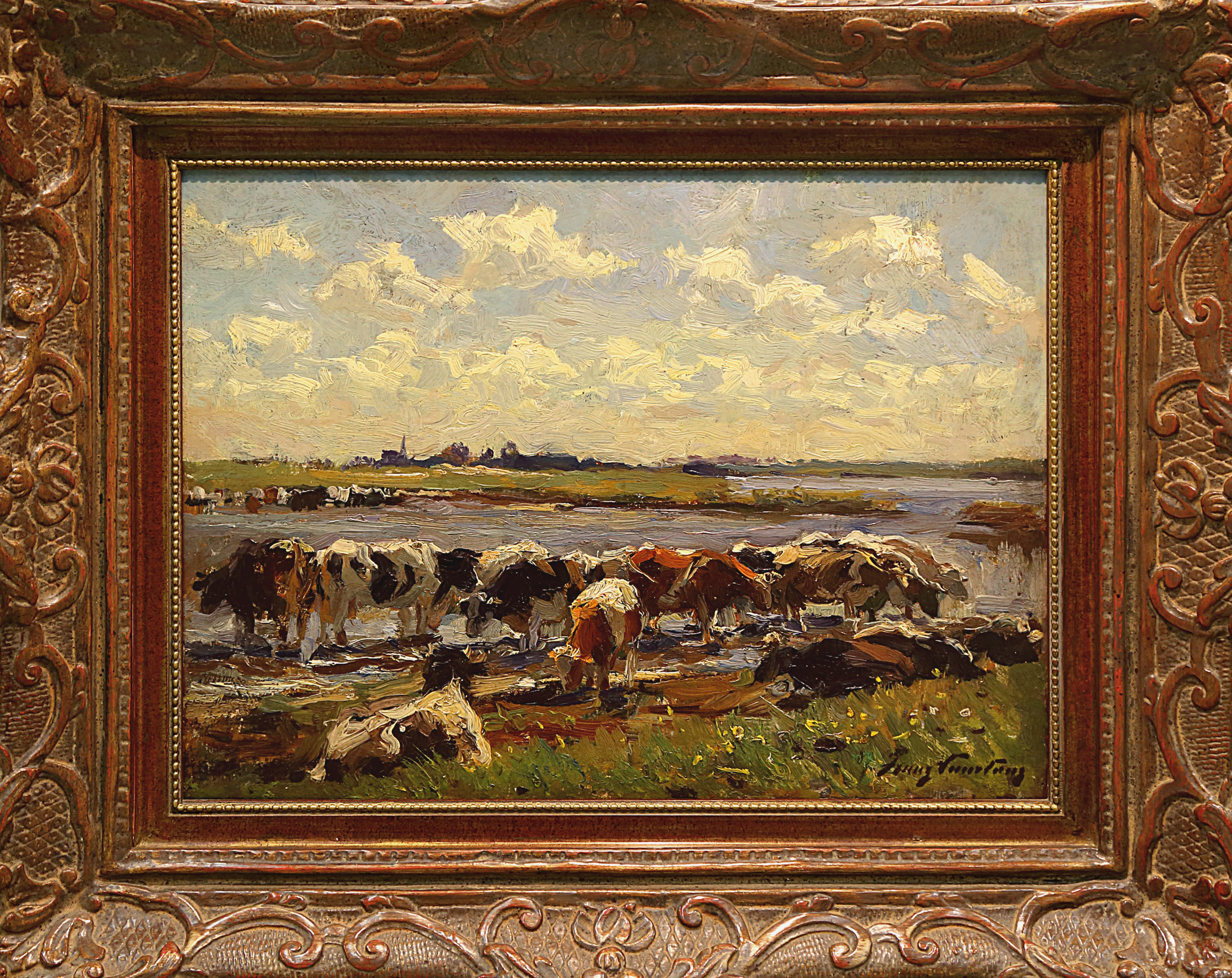 Franz Courtens, « Cows at the trough », oil on canvas. Private collection. Picture taken in the cultural centre Marius Staquet in Mouscron, Belgium.